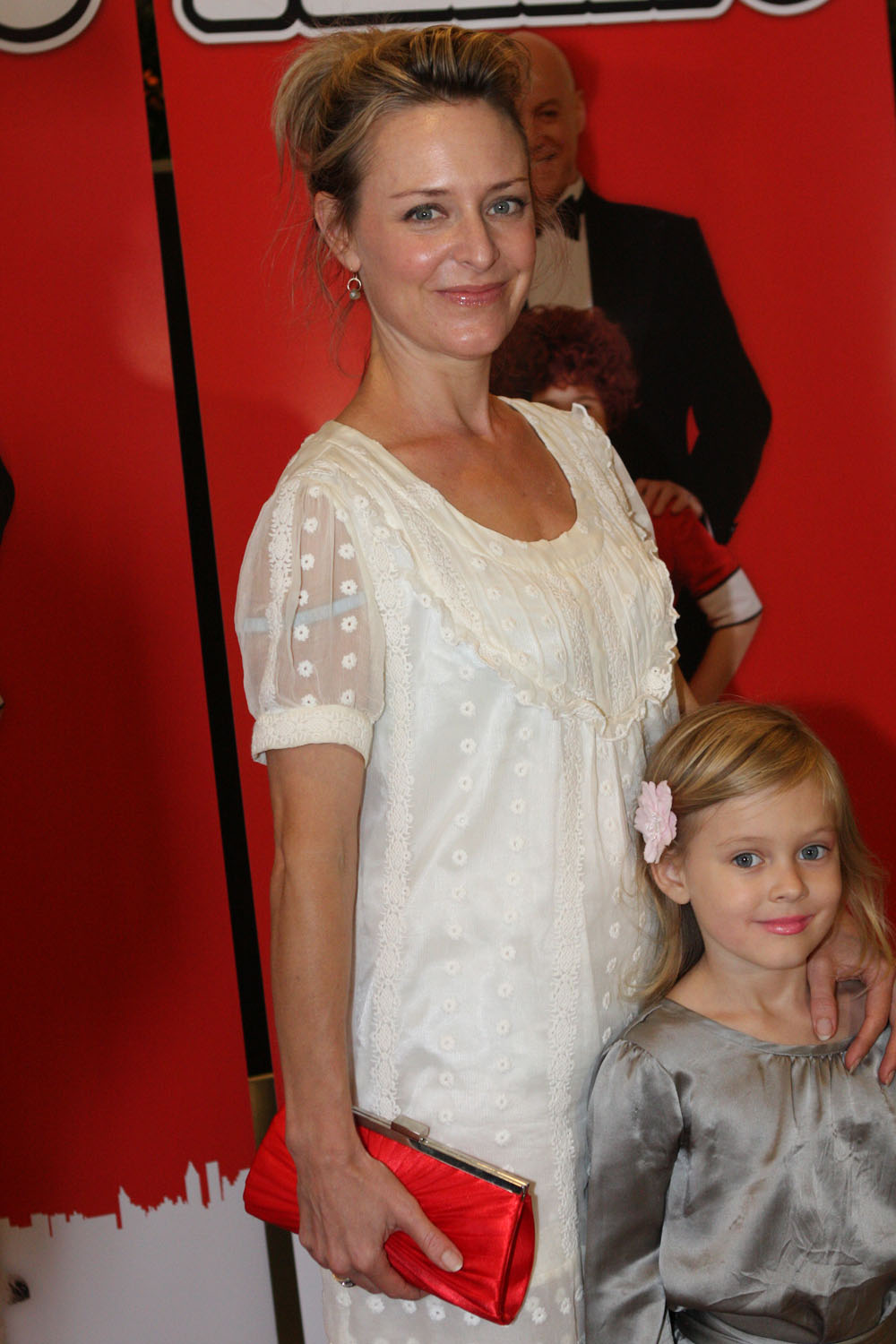 Rachael Beck at the premiere of Annie